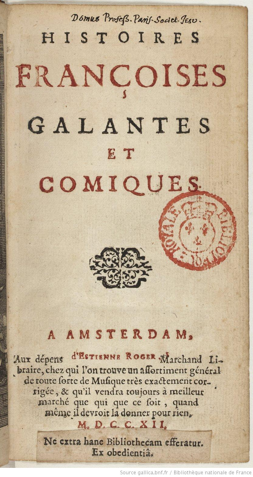 Robert Challe, Front Page of Histoires Françoises. Galantes et comiques. Amsterdam MDCCXII (1712)